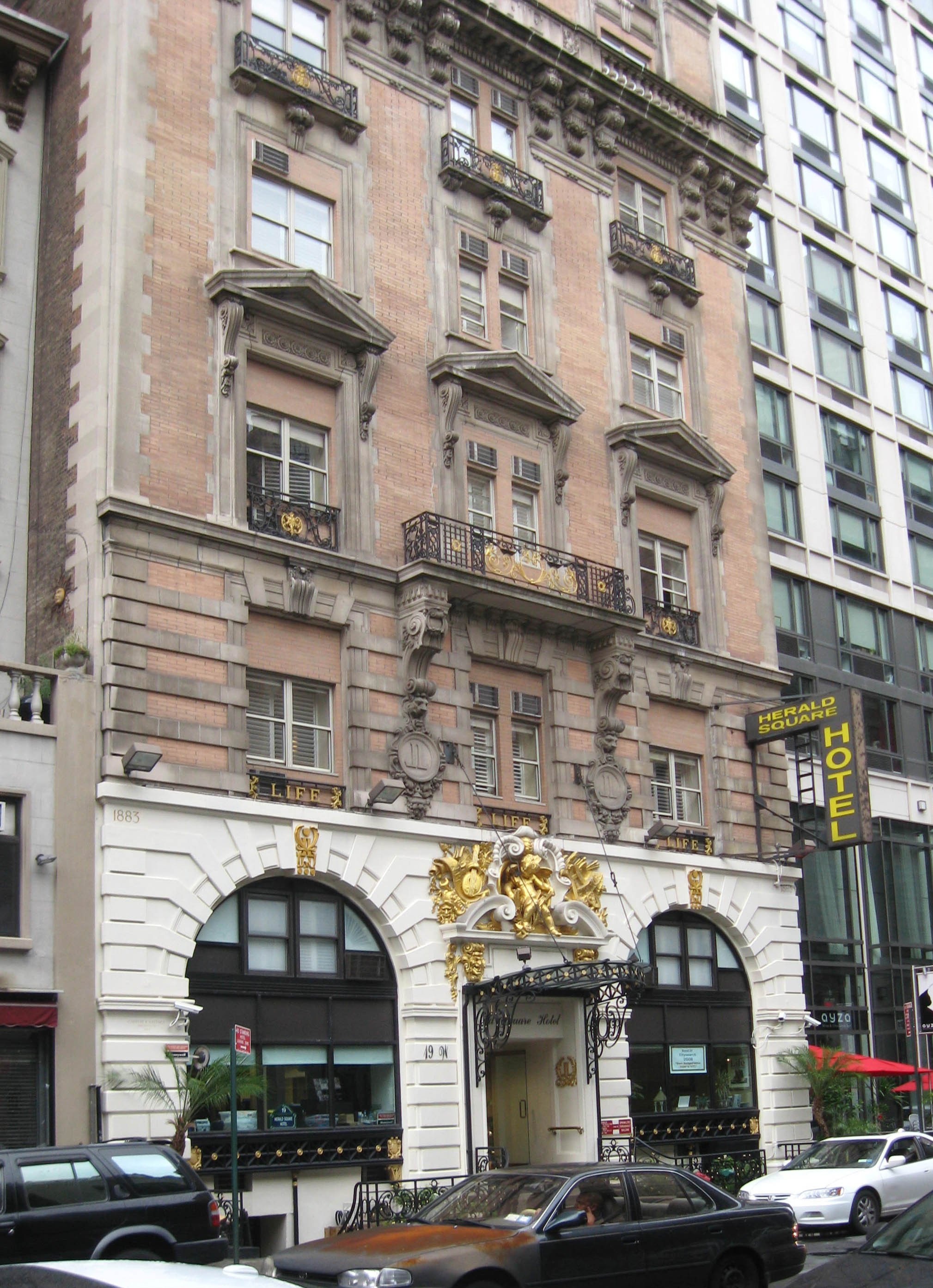 Looking north across 31st St at 19 West 31st, former office of Life magazine and now the Herald Square Hotel